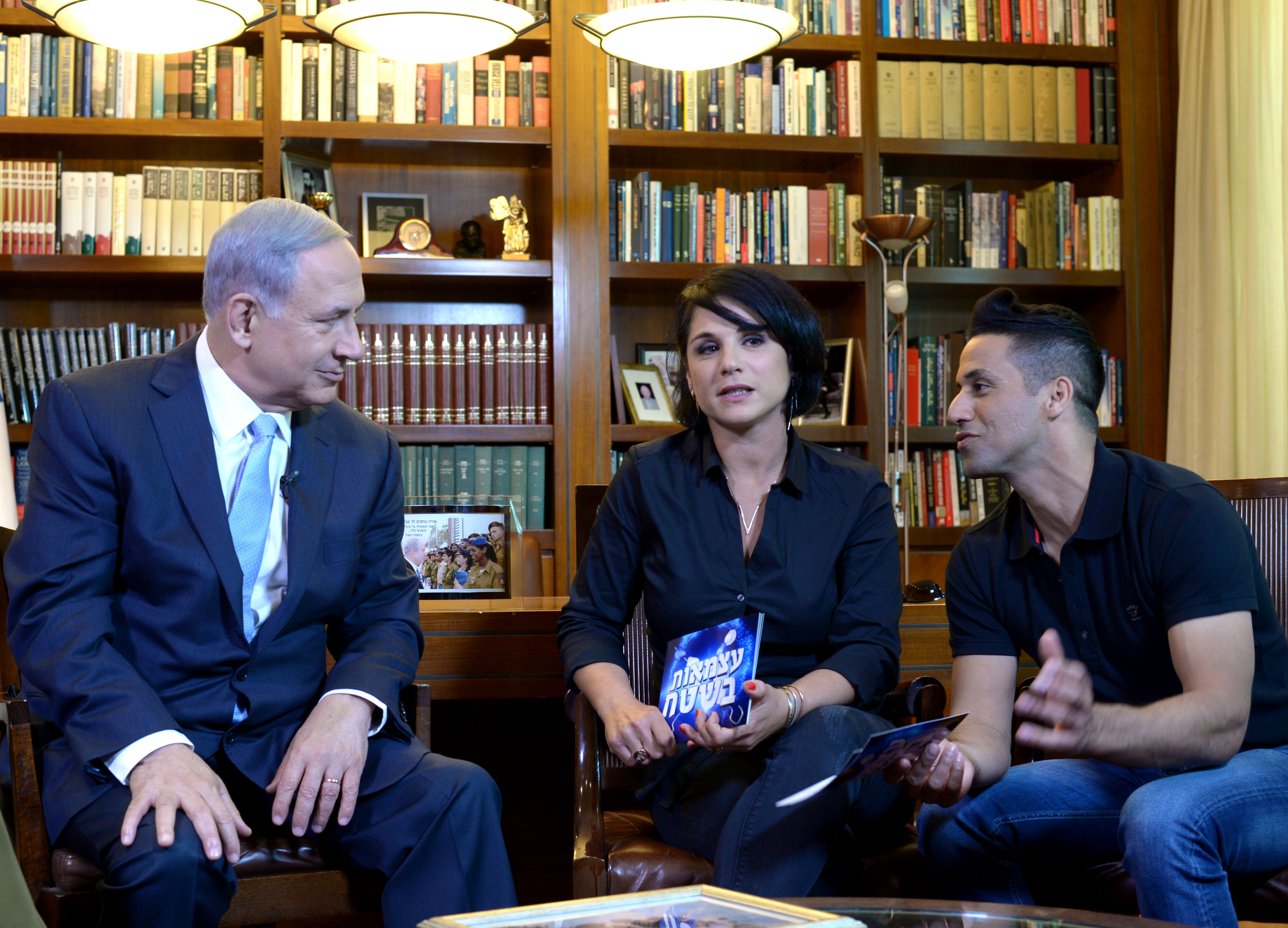 Prime Minister Benjamin Netanyahu meets with a group of soldiers at his office in Jerusalem as part of a special TV show for the Independence day celebrations. In the photo: Prime Minister Benjamin Netanyahu (left), actor Rotem Abuhav (center) and comedian Shahar Hason (right).